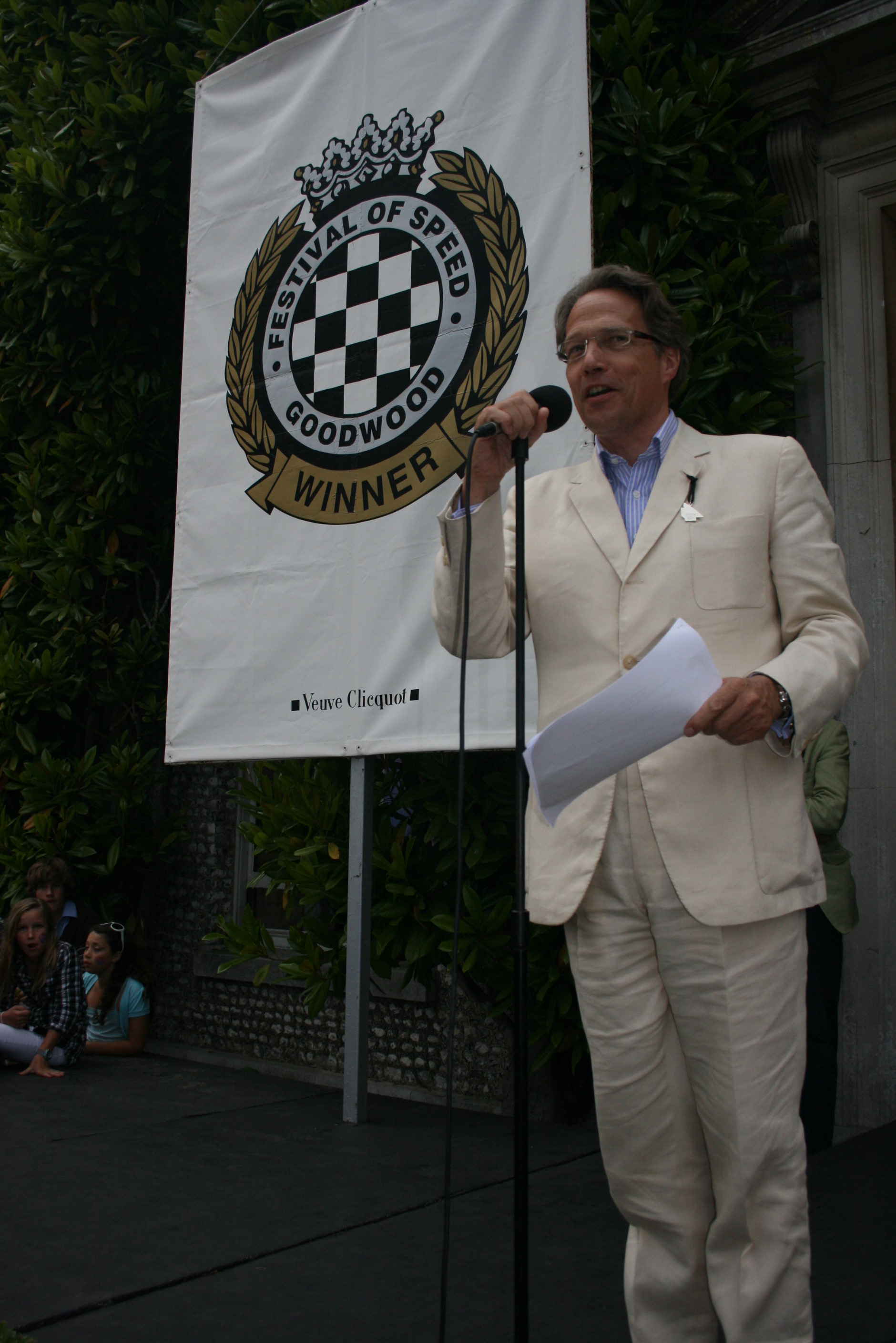 Lord March addresses the invited guests